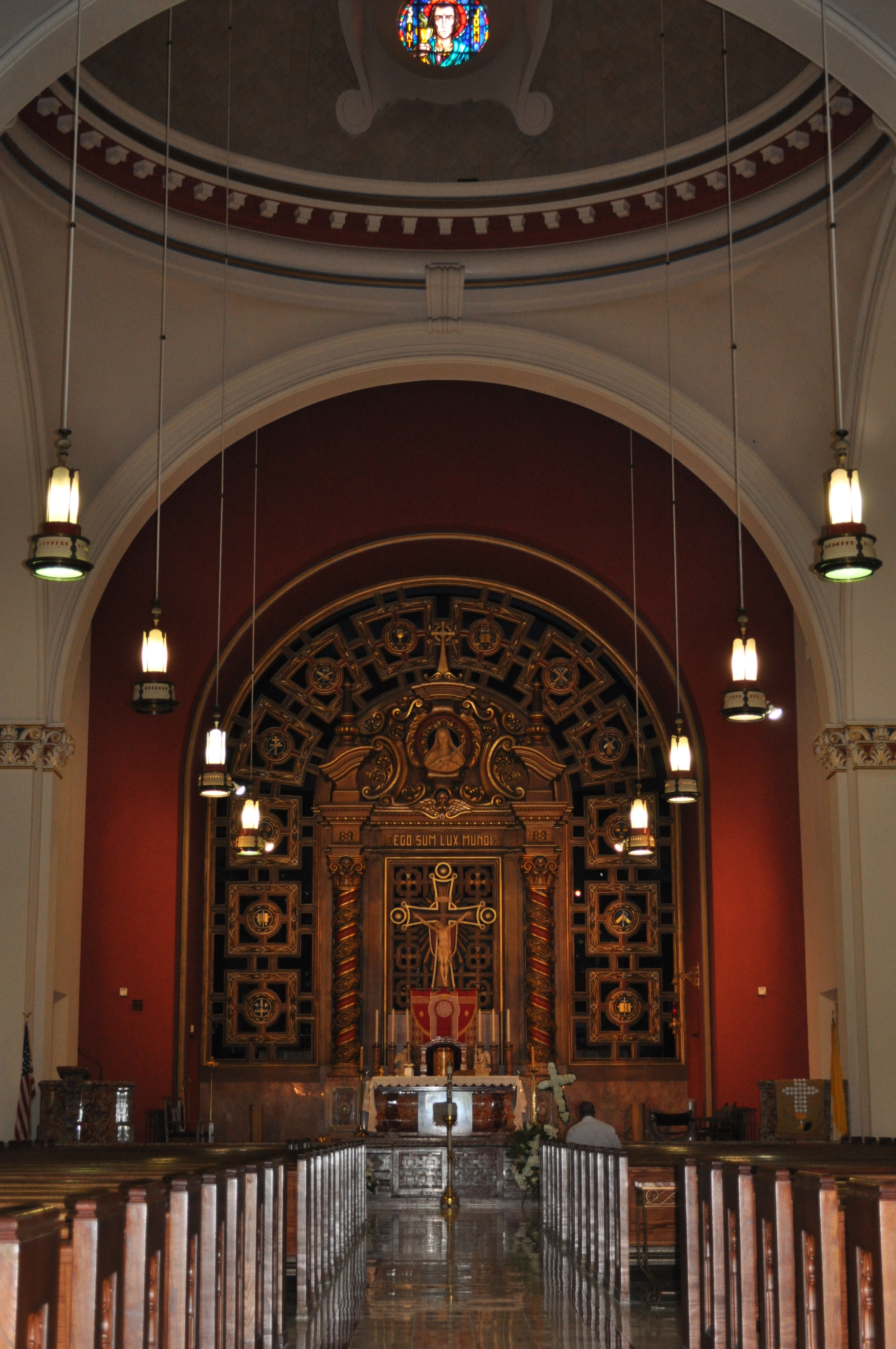 A view of the altar of Church of the Little Flower halfway down the very long aisle.